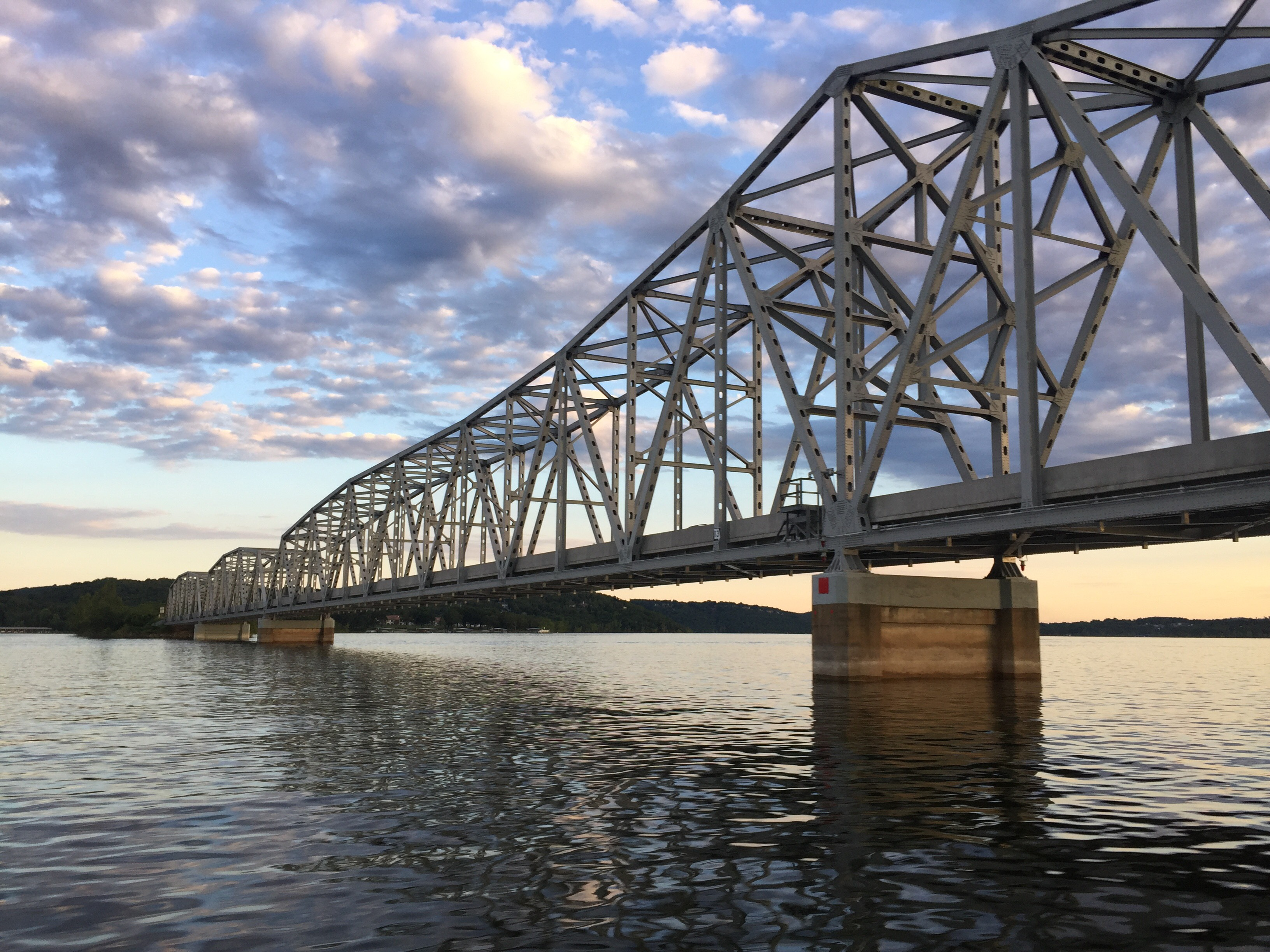 This is the Kimberling City Bridge, where Missouri 13 crosses over Table Rock Lake.